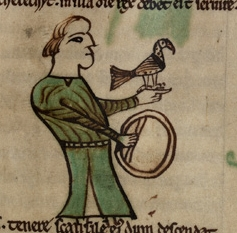 Hawker. From a Latin copy of the Laws of Hywel Dda, which belongs to one of the National Library of Wales's foundation collections of manuscripts, the Peniarth Manuscripts.